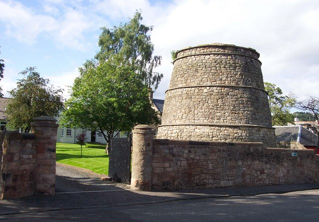 Corstorphine Dovecot Edinburgh 2007 The Corstorphine Dovecot is a well preserved 16th century beehive shaped dovecot. It has over 1000 nest boxes for pigeons that fed the Forrester family who had the nearby long lost Corstorphine Castle.